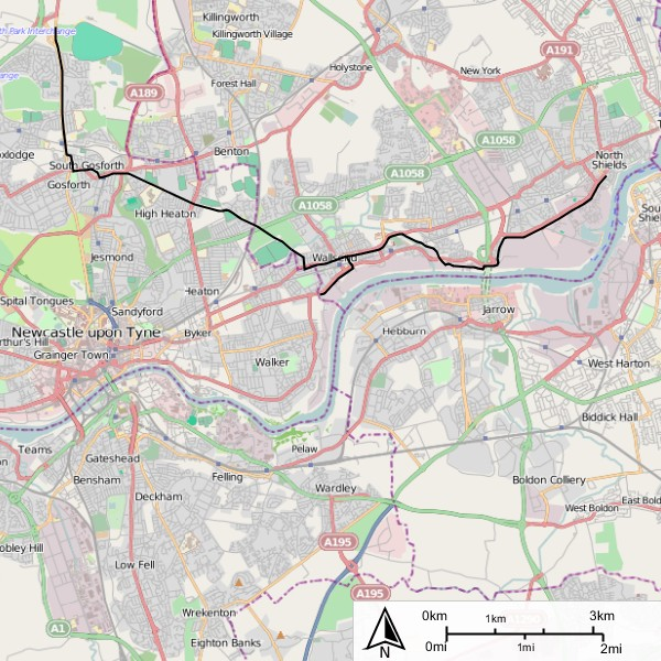 Tyneside Tramways and Tramroads Company Legend: *━━━ Primary lines *━━━ Secondary lines *━━━ Tertiary lines